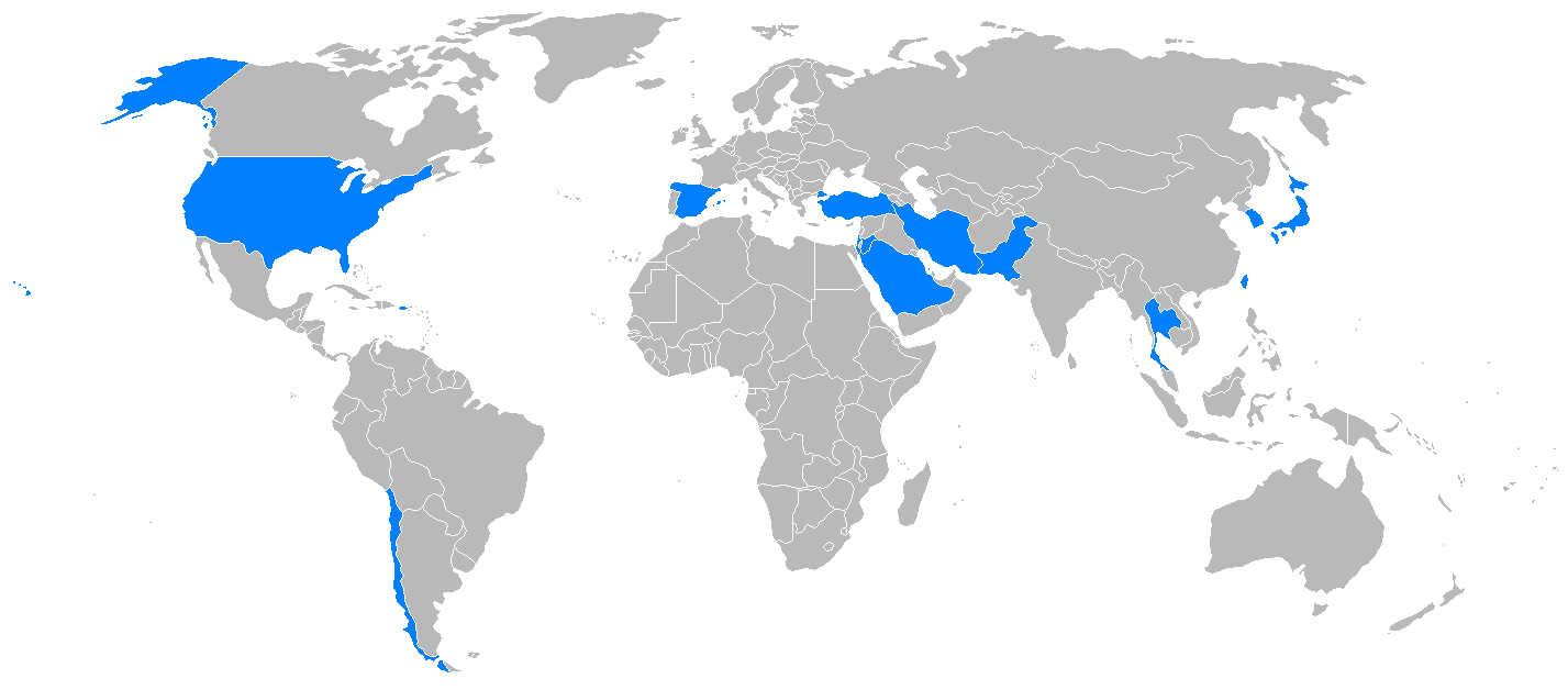 World map of AH-1 Cobra operators